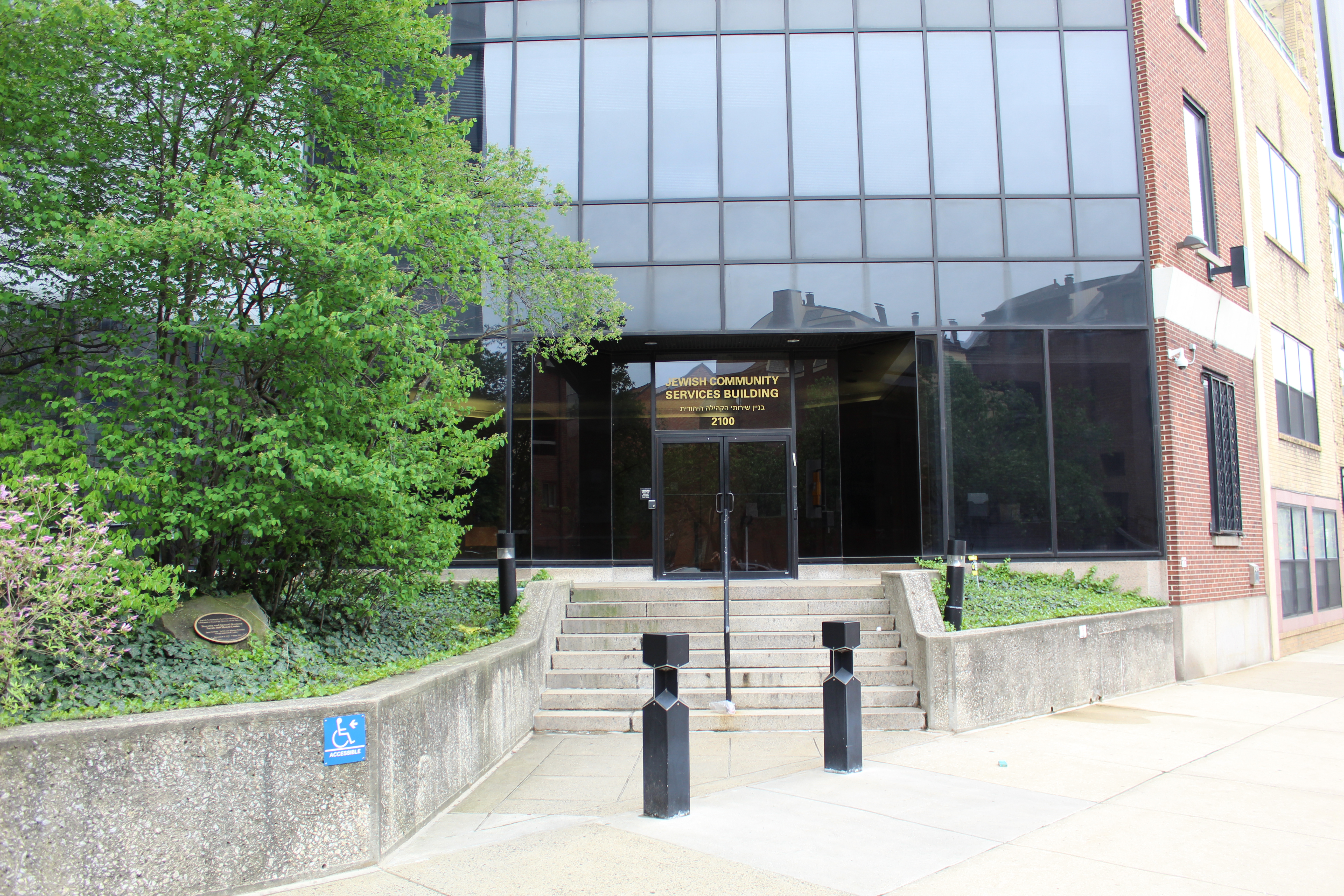 History of the Jews in Philadelphia